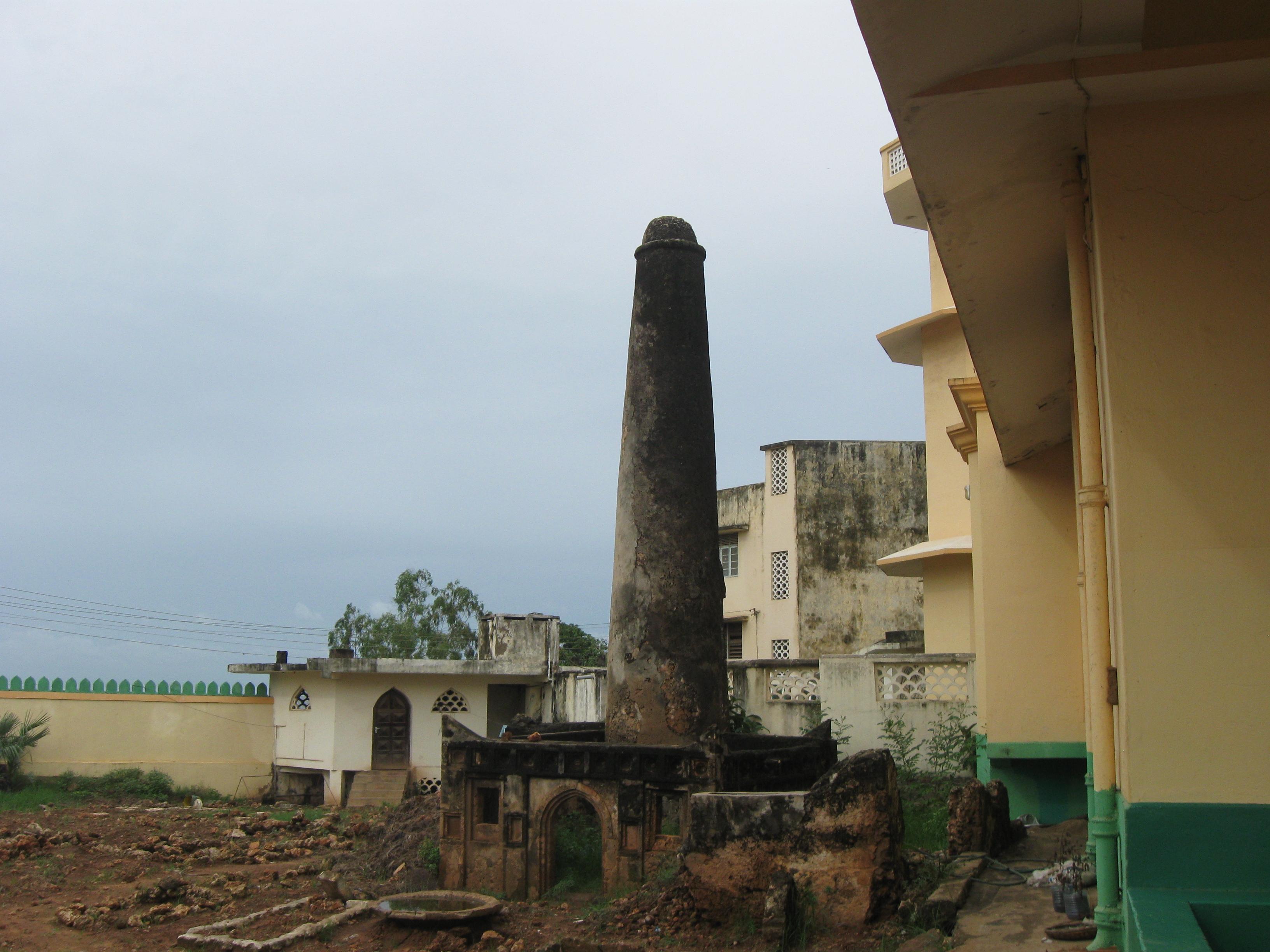 Pillar tomb in Malindi, Kenya near Juma'a mosque